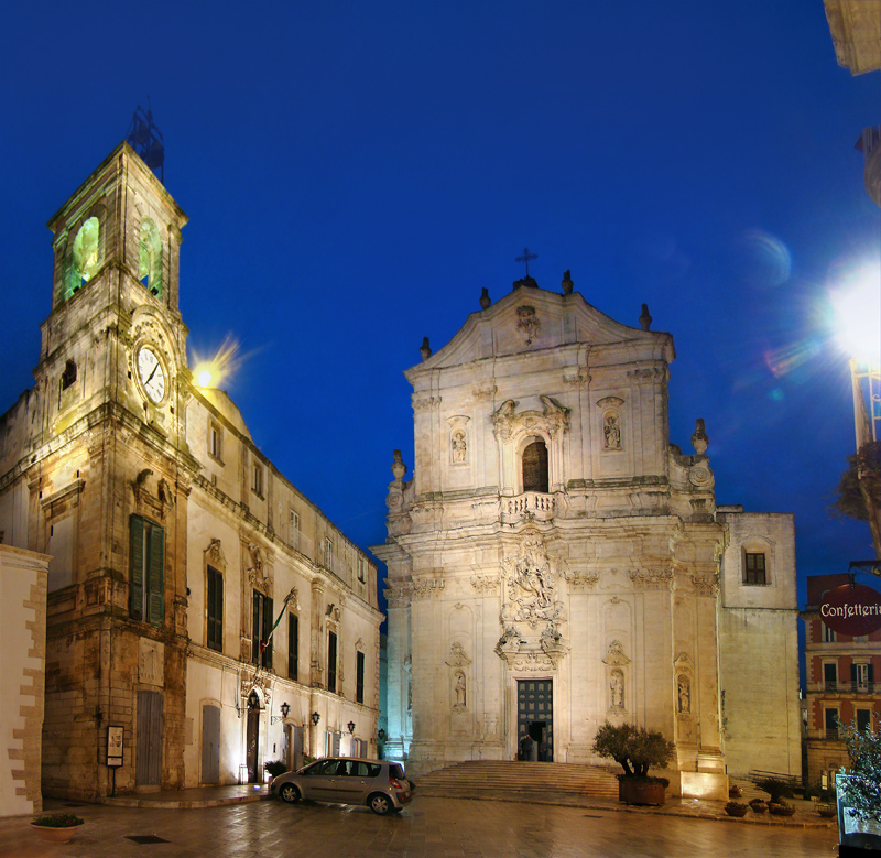 Piazza Plebiscito, Martina Franca, Apulia, Italy. On the left the Clock Tower, on the right the Basilica of San Martino.